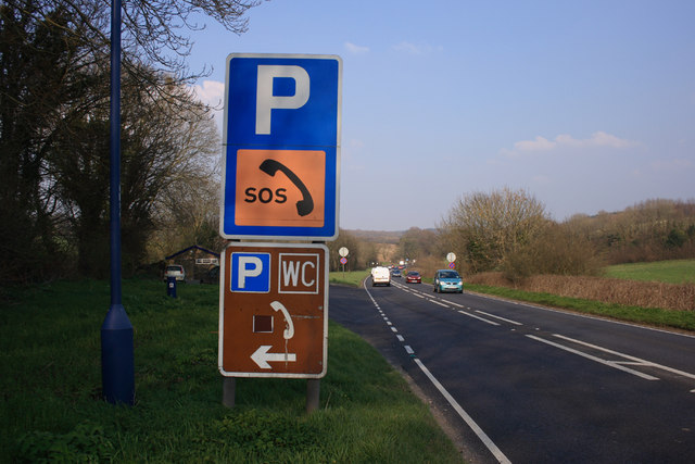 Lay-by on the A35 Large Lay-by just outside of Dorchester on the A35. A welcome break for travellers with refreshment van and WC and emergency phone on site.